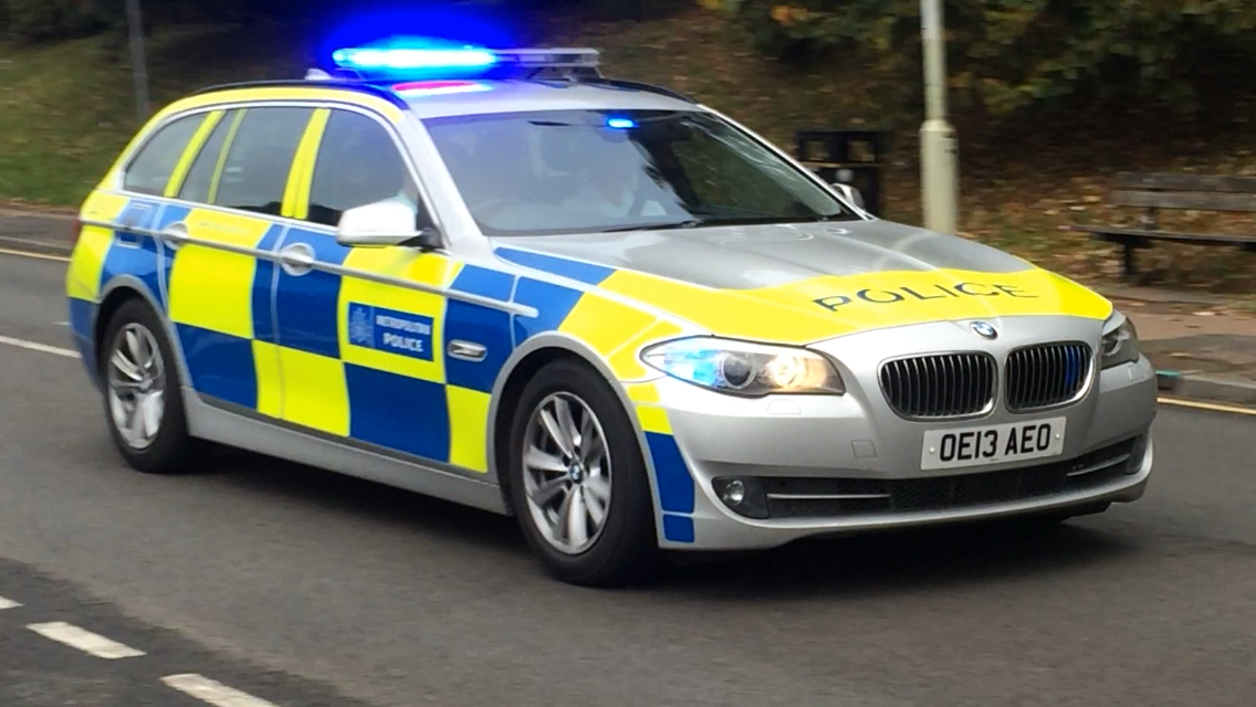 Metropolitan Police BMW 5 series estate Area Car responding